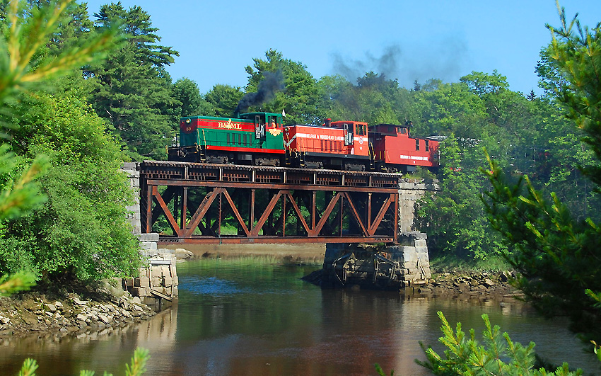 BML#50 and BML#53, a pair of late 1940's GE 70-ton diesel electric locomotives, crossing the BML's City Point Trestle (MP 2.0) at the "Head of Tide" heading inland from Belfast, Maine, on the 33-mile Belfast and Moosehead Lake Railroad main line to Burnham Junction.